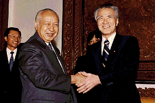 Tomiichi Murayama, Prime Minister, met Suharto, President, at the Merdeka Palace in Central Jakarta City, Jakarta Special Capital Region on November, 1994. (For terms of use, see 法的事項 ｜ 外務省.)